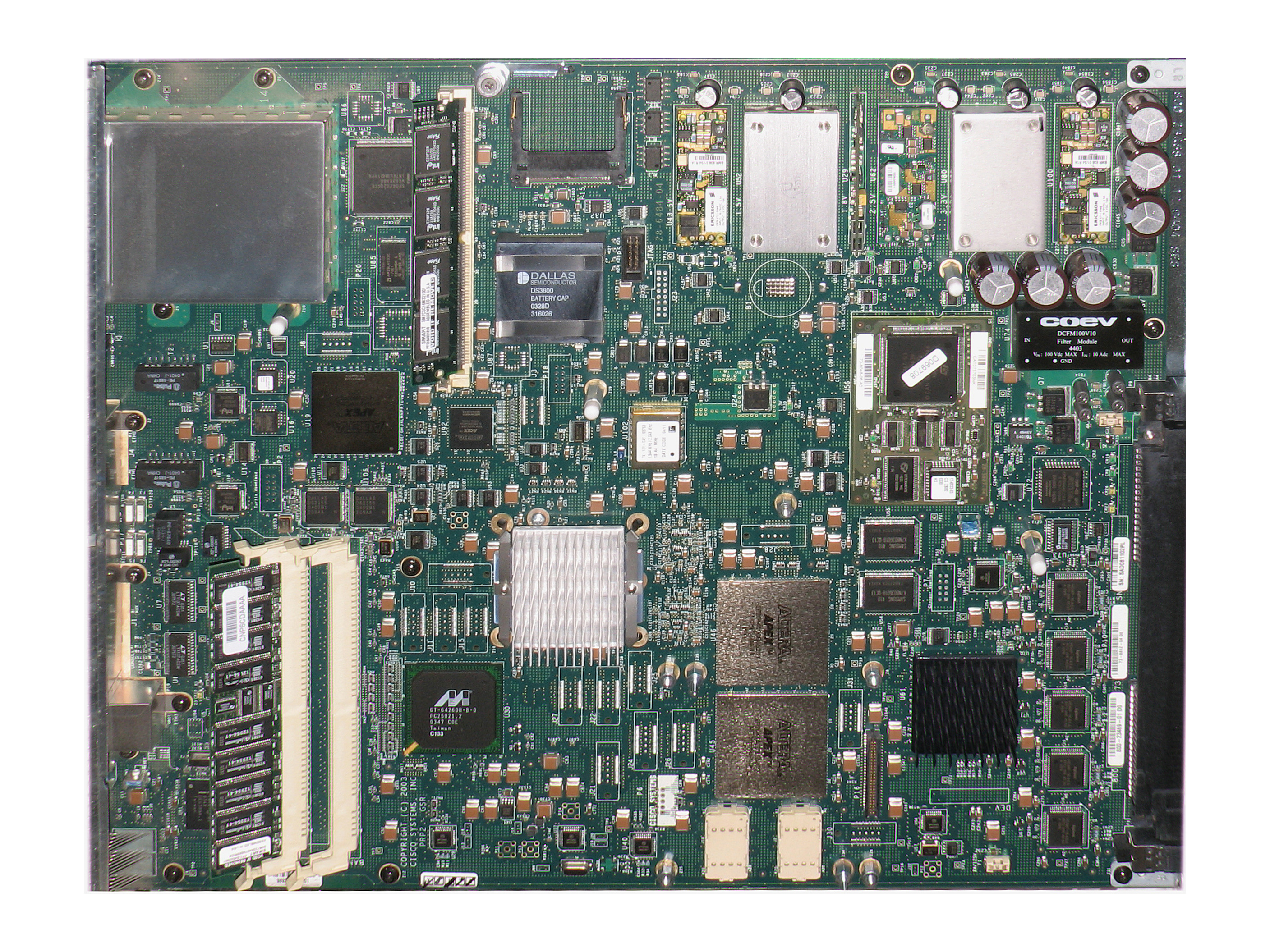 Cisco Gigabit Switch Router (GSR) Performance Route Processor (PRP2). Suboptimal conditions mandated heavy cropping and aggressive perspective correction.